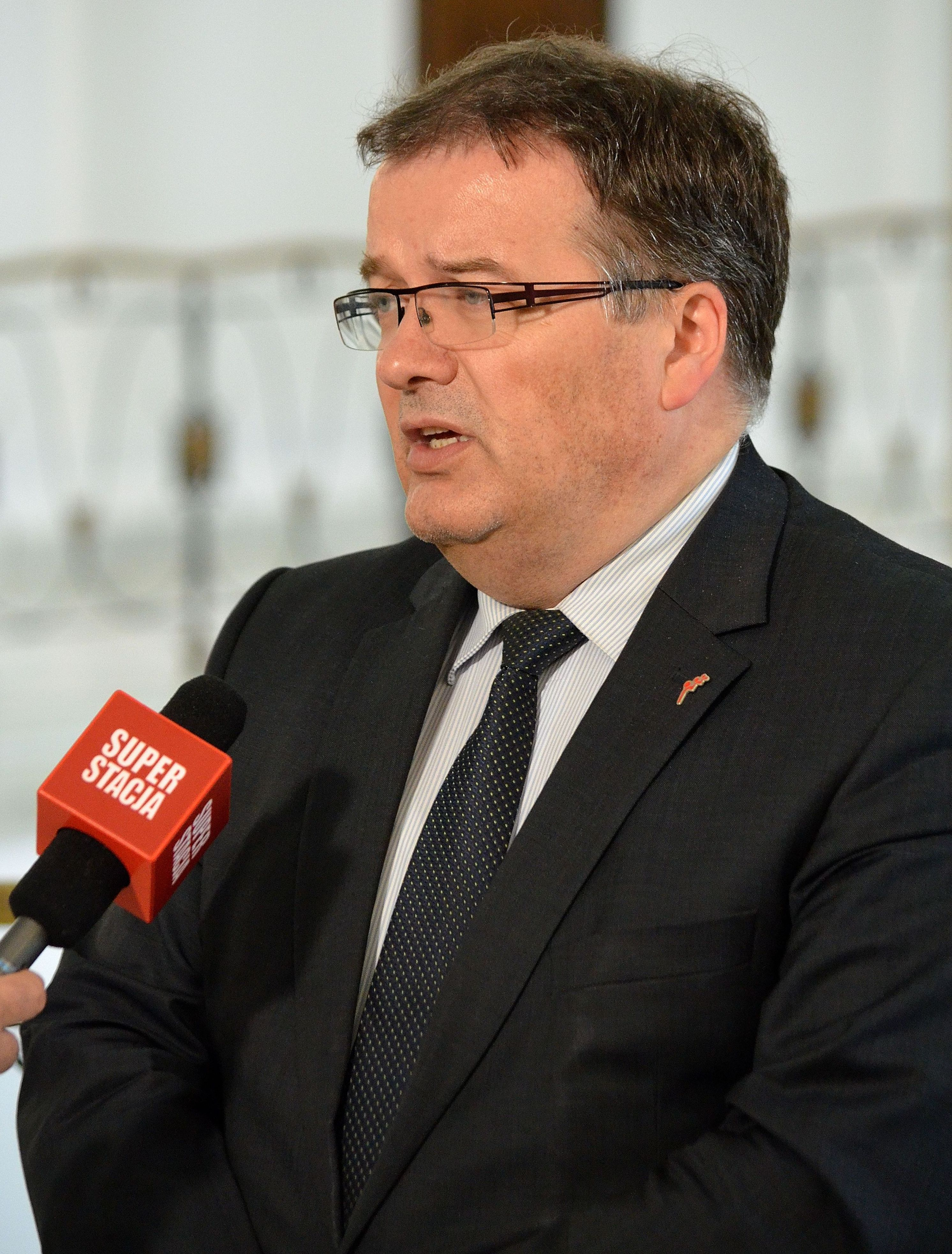 Deputy Andrzej Dera in the Polish Sejm